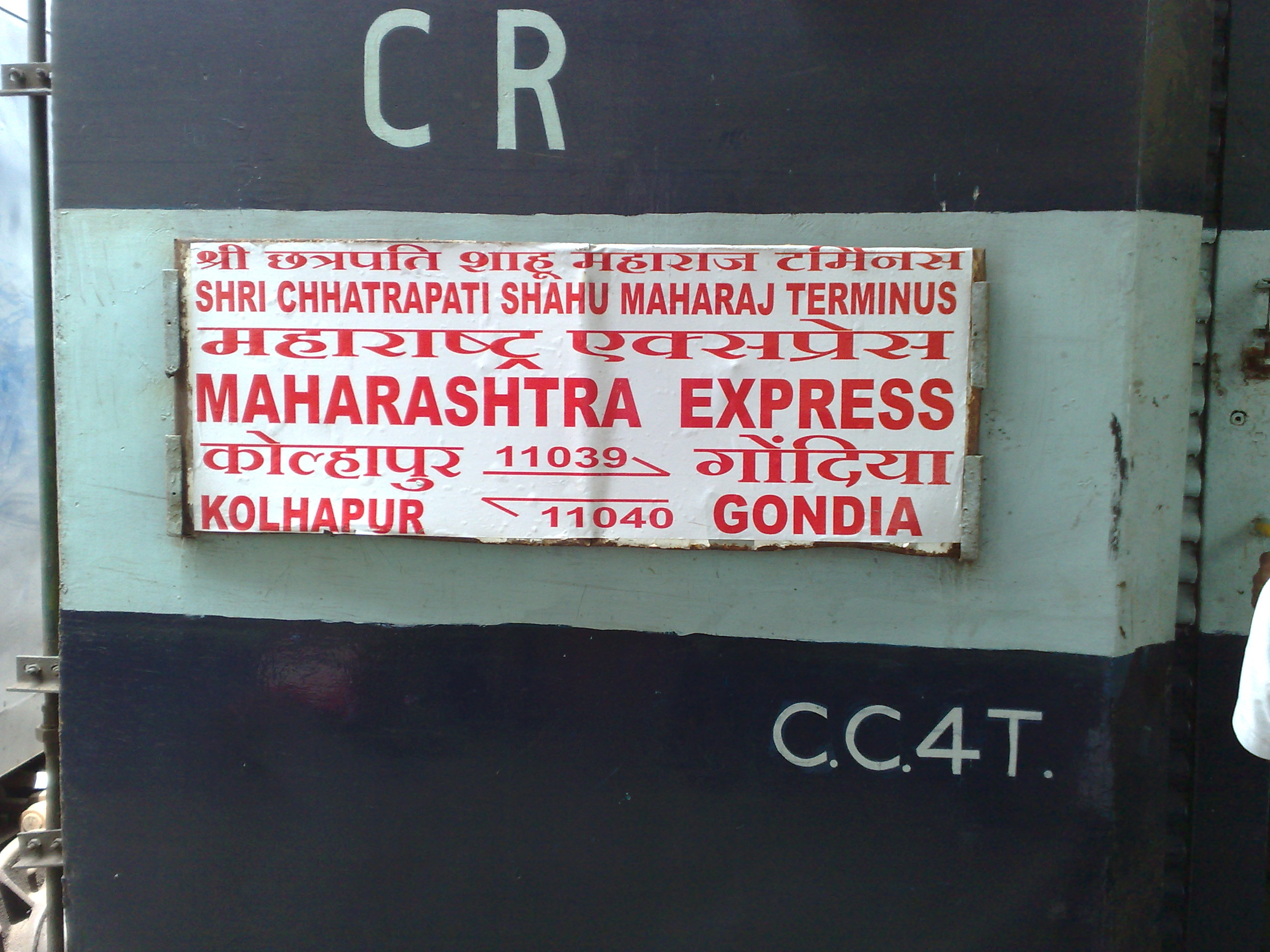 Maharashtra Express